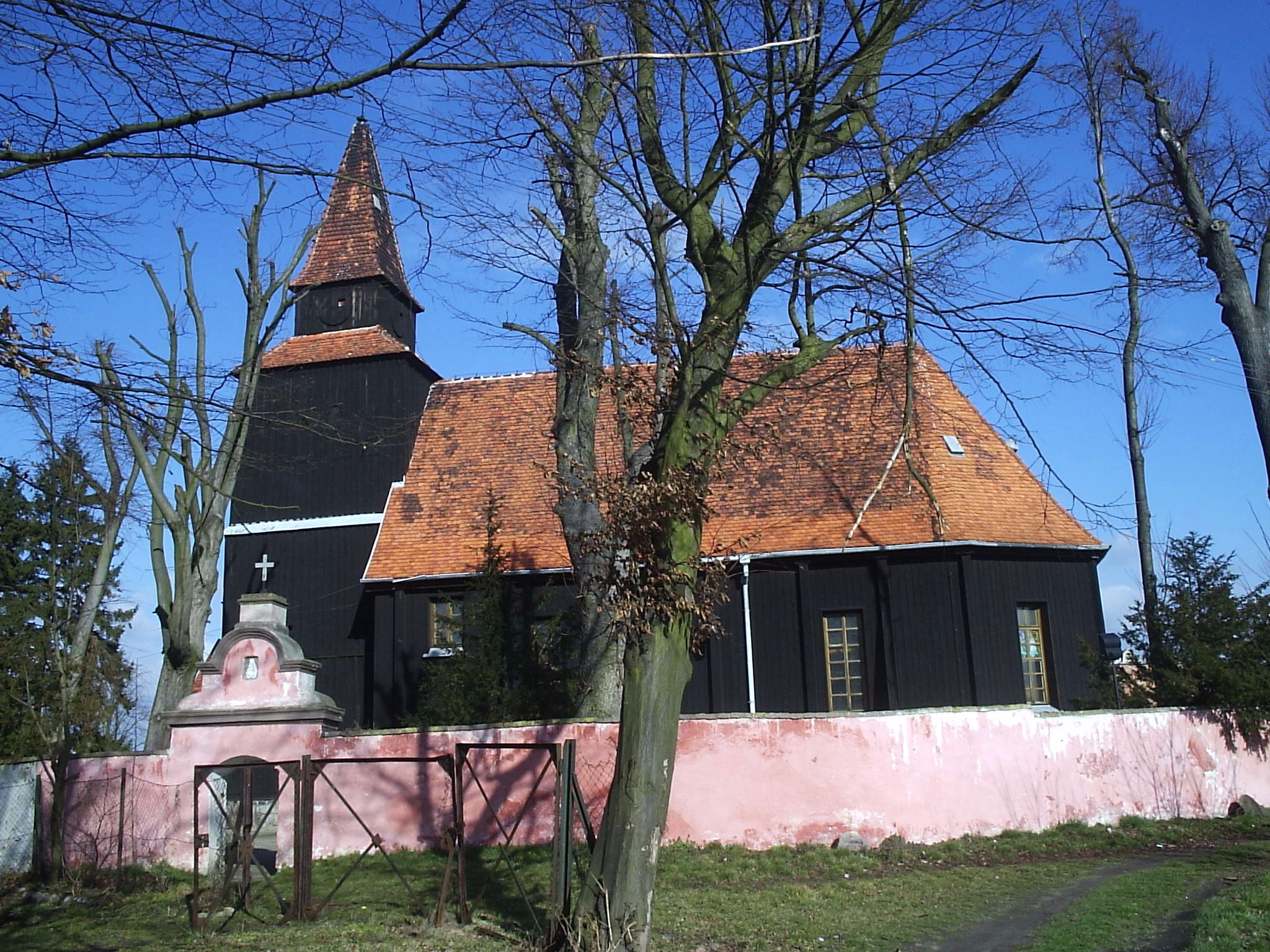 Saint Clemens church in Zakrzewo, Poland